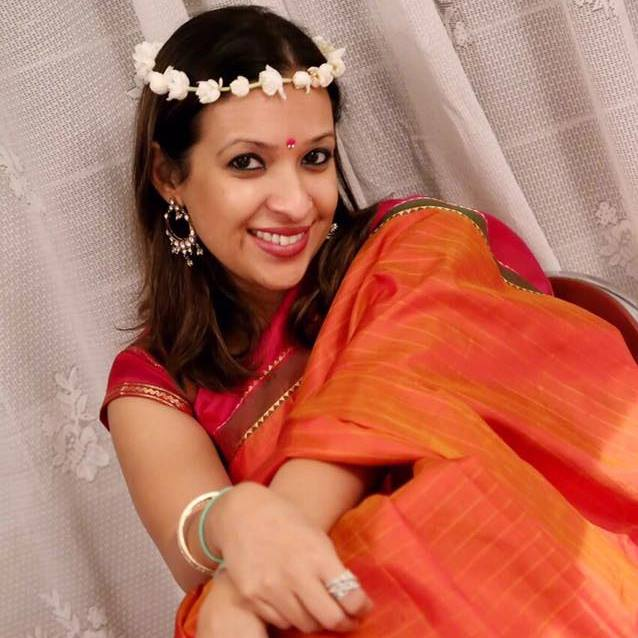 Ali wearing flowers in her hair